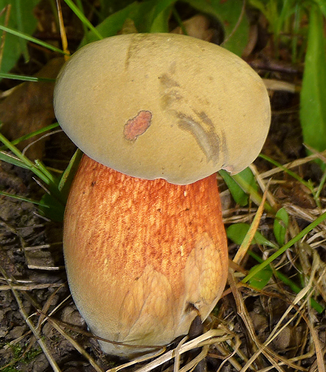 Young lurid bolete (Boletus luridus). Ukraine.